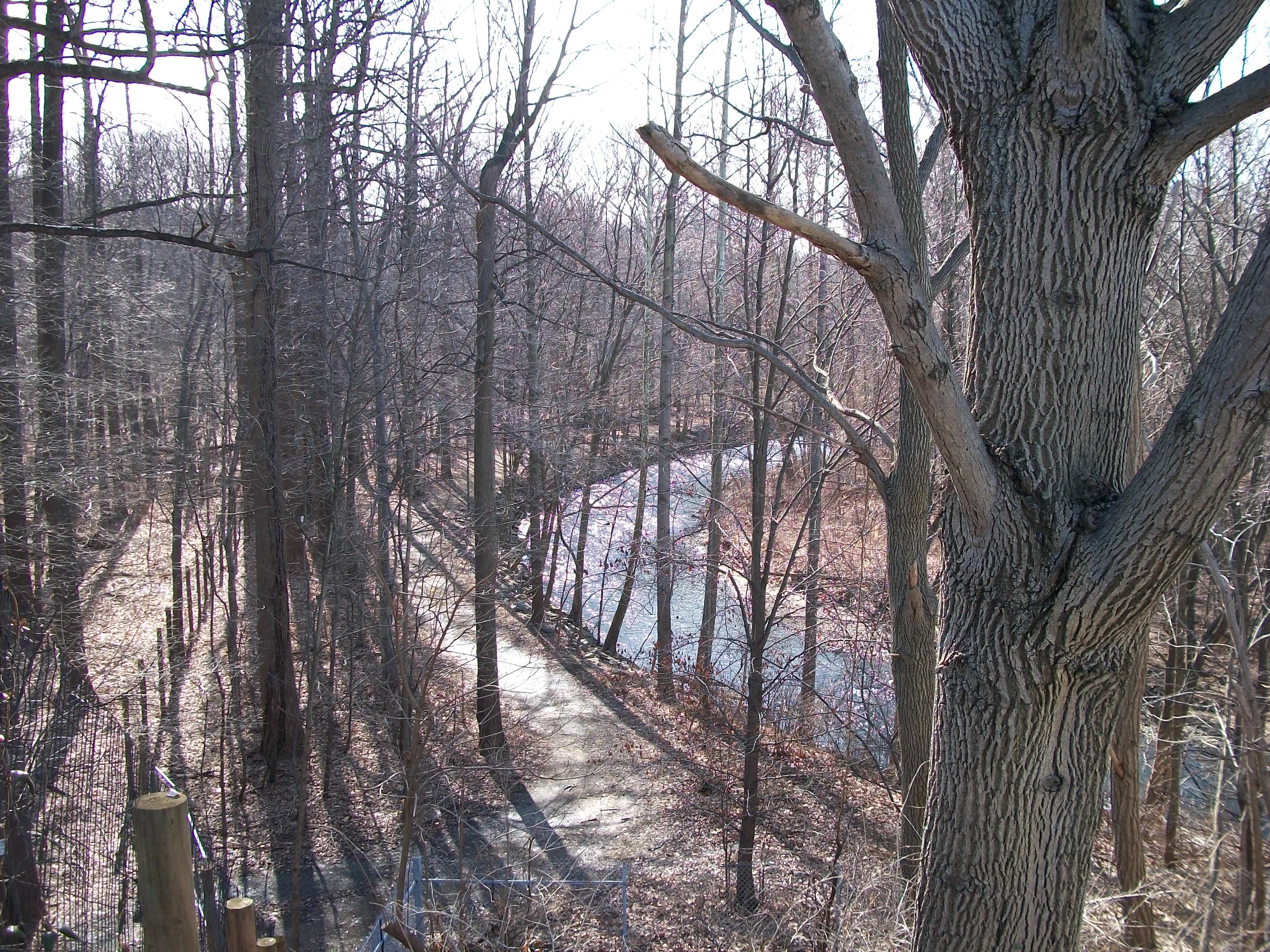 A stream runs on the west side of the park. The property was bequeathed to Morris County in 1969 by Matilda E. Frelinghuysen, who participated in the plans to convert the 127-acre property into a public arboretum.